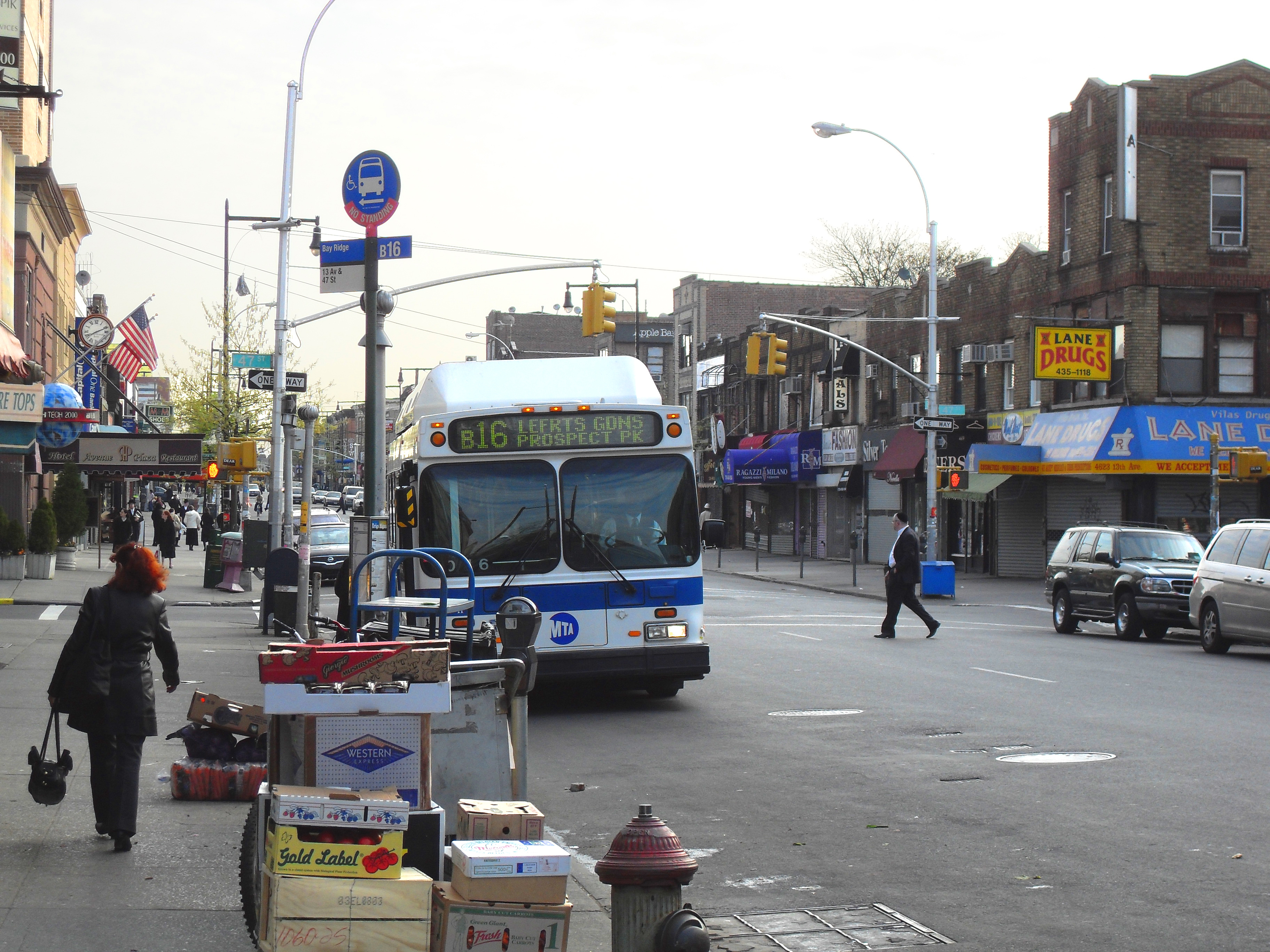 13th Avenue overlooking 47th Street. Author - Barry Hammer